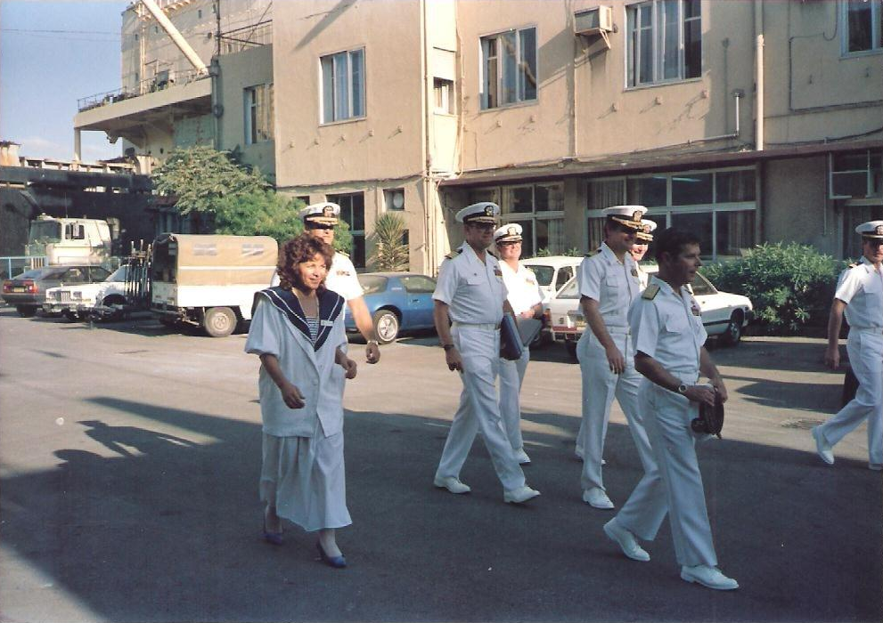 Haifa USO (Israel) Director Gilla Gerzon escorts a group of U.S. Navy officers led by then-U.S. Chief of Naval Operations Admiral Jeremy Boorda (to right, holding his hat) on a tour of Haifa.